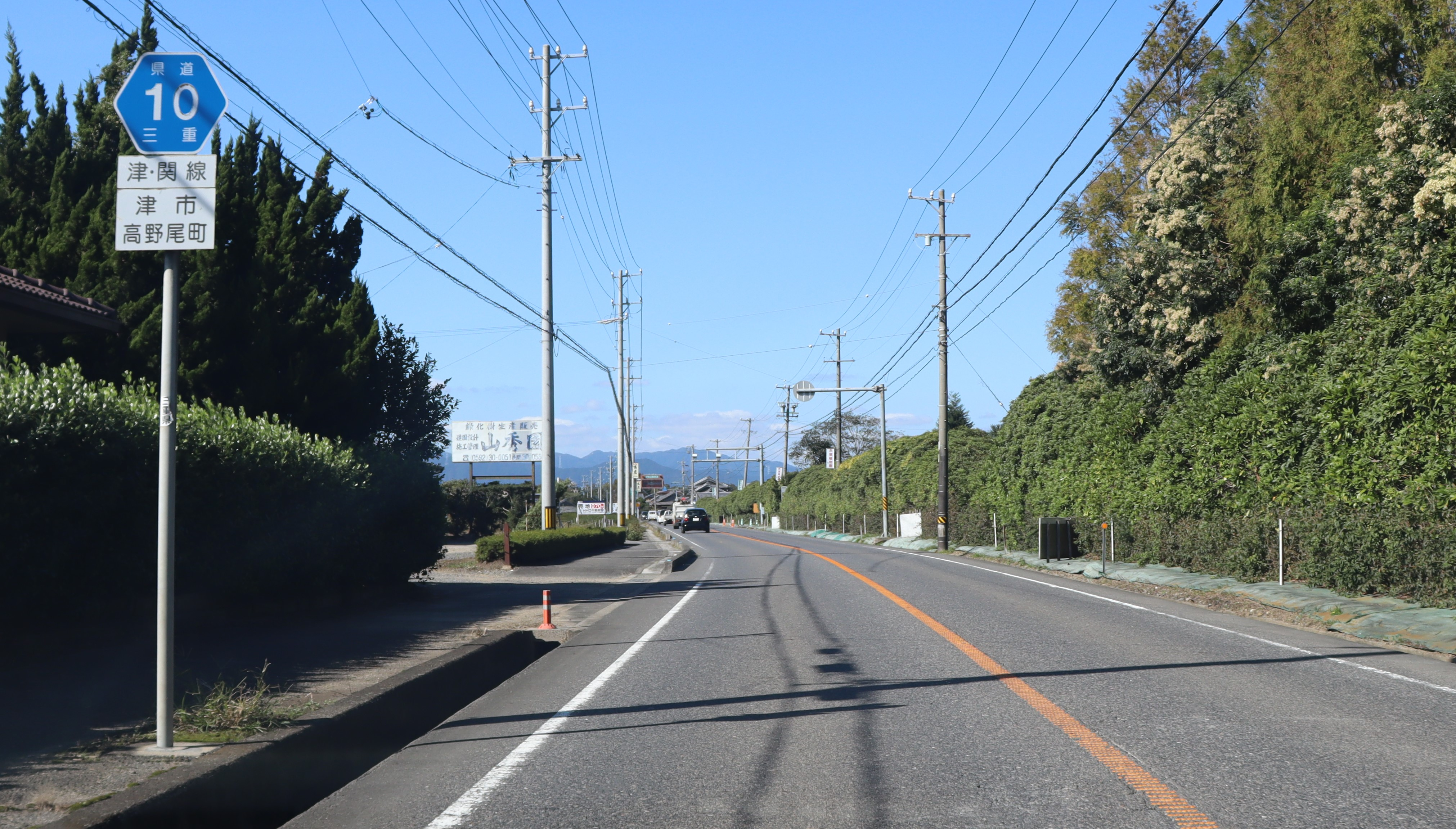 Mie Prefectural Road Route 10 in Takanoocho, Tsu, Mie Prefecture, Japan.